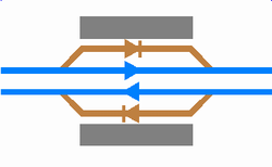 Diagram of railway track layout at straions.